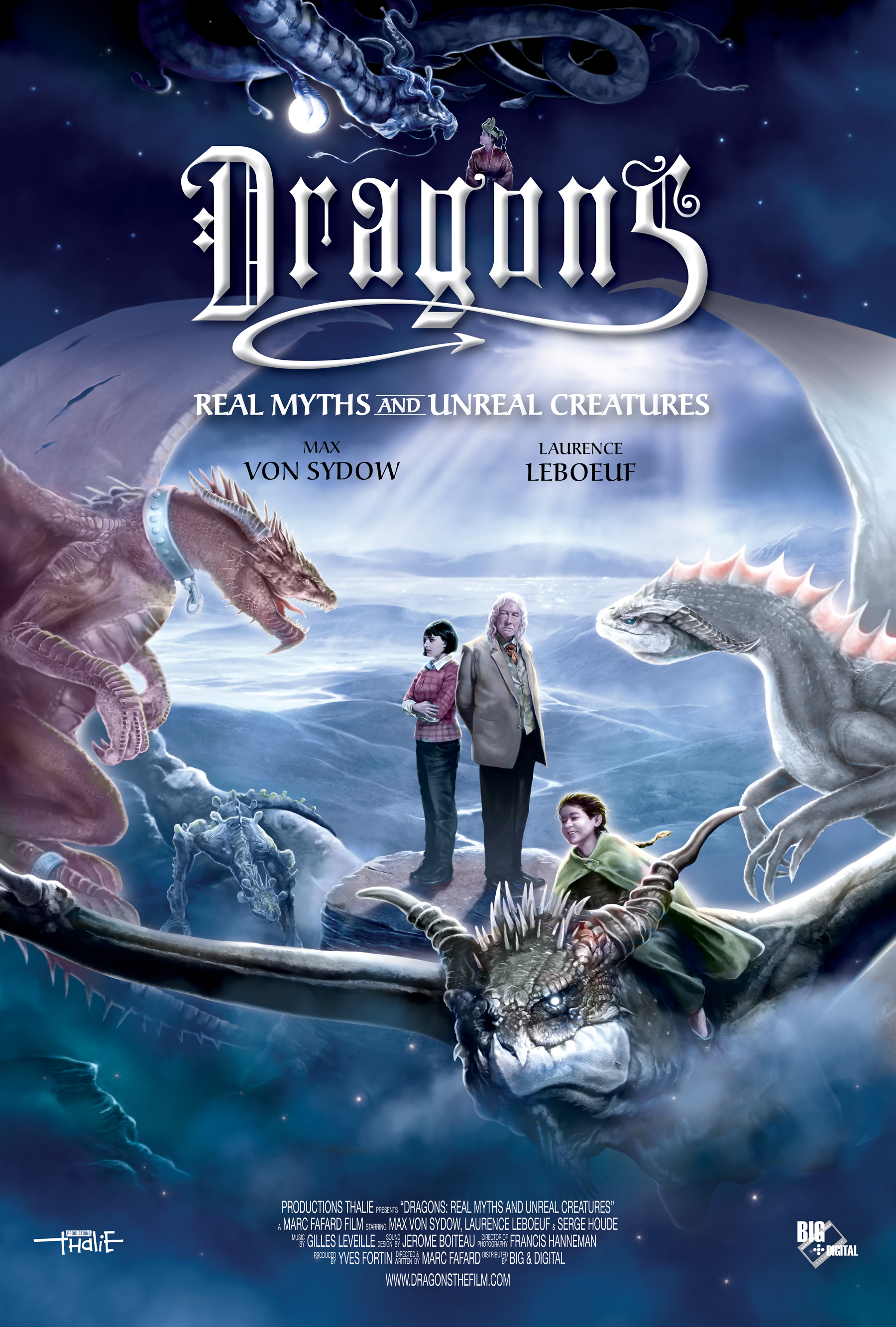 Dede Putra developed the artwork which depicts some of the dragons and actors starring in the film.